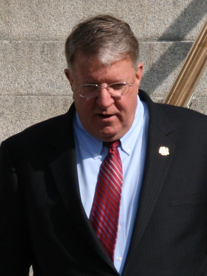 senator reilly walking down capitol steps in annapolis